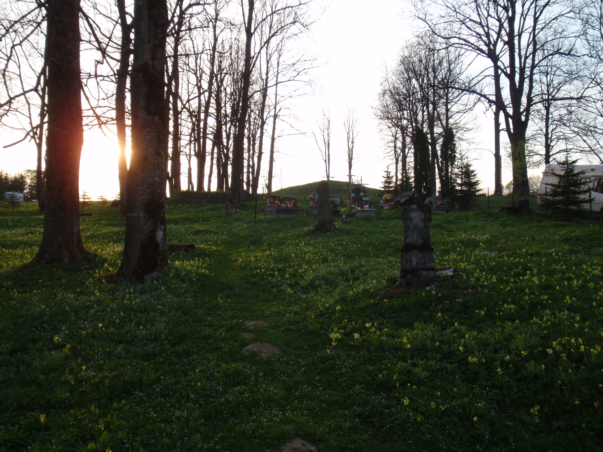 Old catholic cemetery in Lutowiska